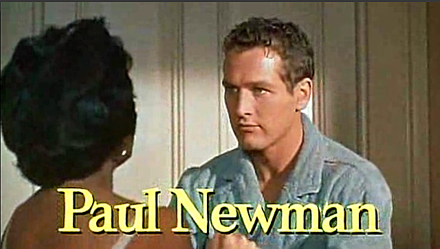 Screenshot of Paul Newman from the trailer for the film Cat on a Hot Tin Roof (film)